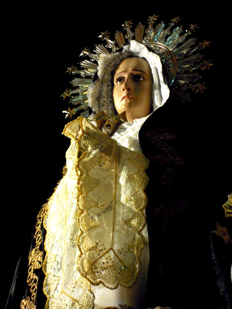 Nuestra Señora de la Soledad, Easter in Beniajan